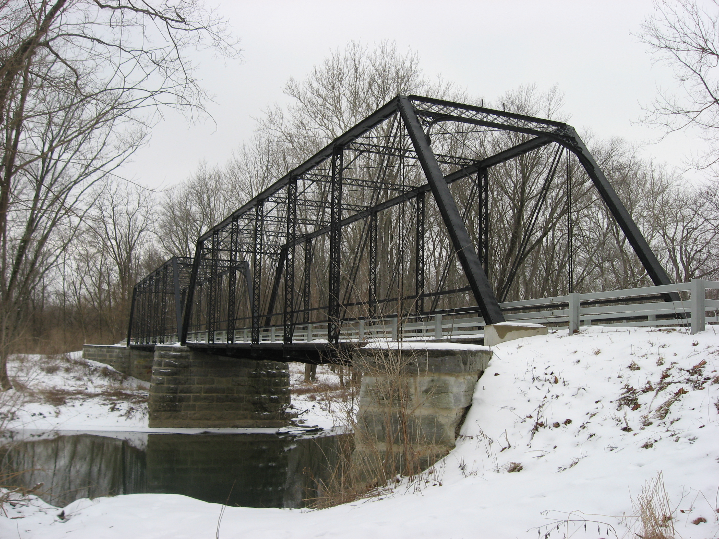 Eastern portal and southern (downstream) side of the Furnas Mill Bridge, which carries Road 650S over Sugar Creek in the Atterbury Fish and Wildlife Area northwest of Edinburgh in Blue River Township, Johnson County, Indiana, United States. Built in 1891, it is listed on the National Register of Historic Places.